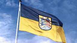 Flensburg Flag with emblem & in the city colours blue/yellow.